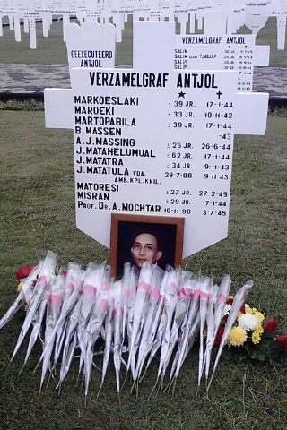 The grave of Prof. Dr. Achmad Mochtar in Ereveld, Ancol, Jakarta, Indonesia during memorial service on July 3, 2013. Prof. Mochtar was the first Indonesian director of Eijkman Institute, who was wrongly accused of contaminating vaccines and was beheaded by Japanese soldiers in 1945. His resting place remained unknown for 65 years, after finally in 2010 the location was found by his successor Prof. Sangkot Marzuki and Kevin Baird.